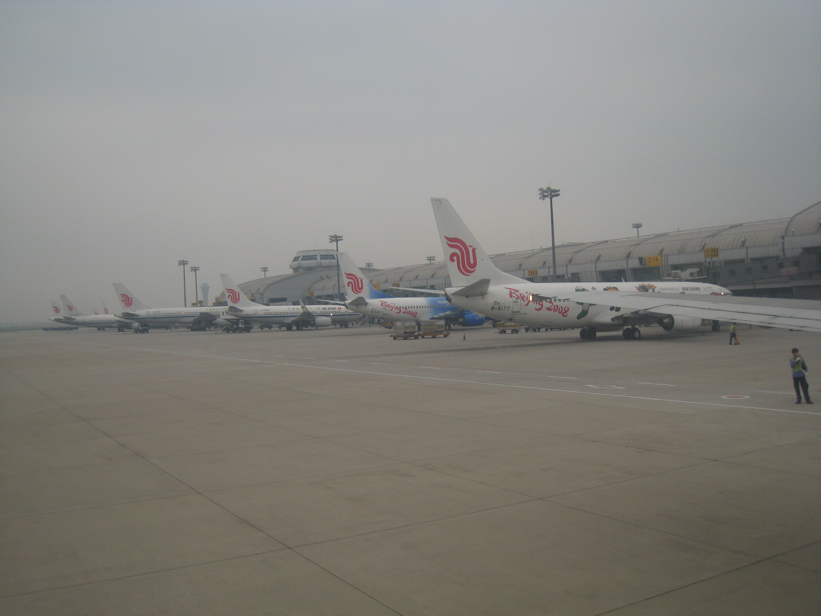 A line of Air China aircraft parked in gates at Beijing Capital International Airport (Major hub city) Different paint schemes can also be seen to advertise the upcoming 2008 Beijing Olympics. [July 2007]